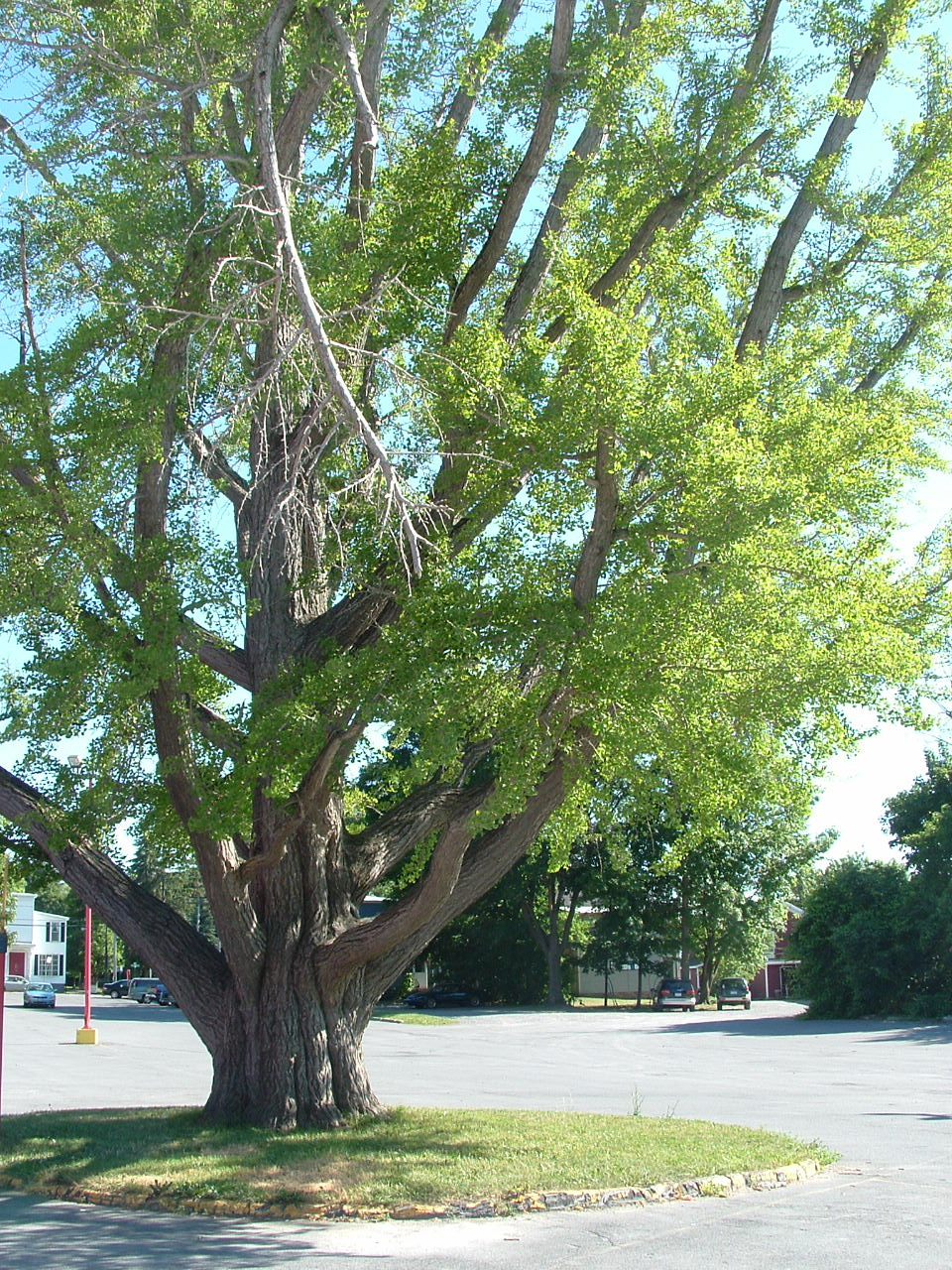 A Ginko Biloba tree near the center of the village of Clinton, New York. This particular tree was planted circa 1850 by the Rural Art Society. This photo was taken in 2007.